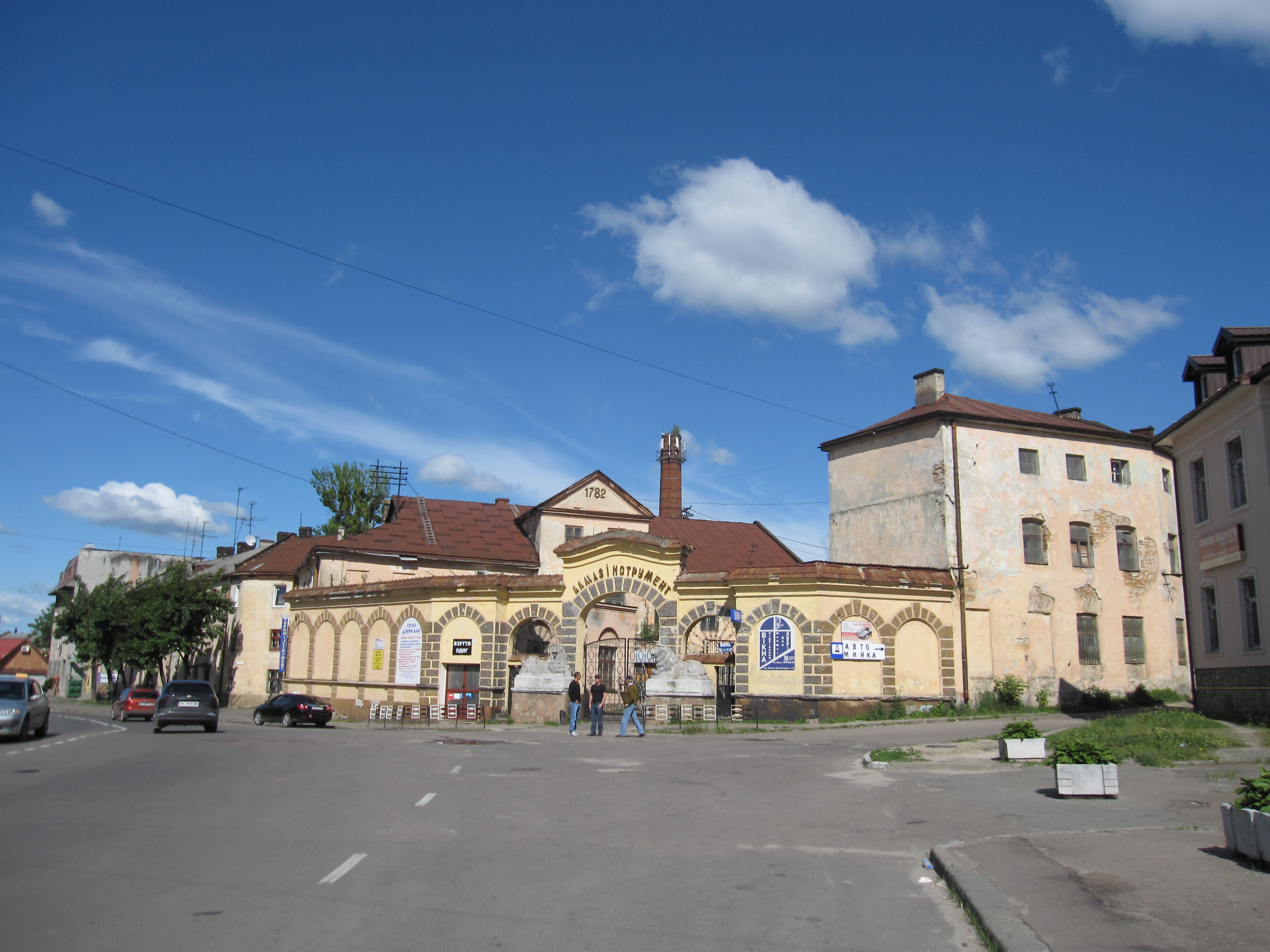 Former factory of J. A. Baczewski at the end of Chmelnicki street in Lviv, Ukraine. Today a factory for abrasives is located there.